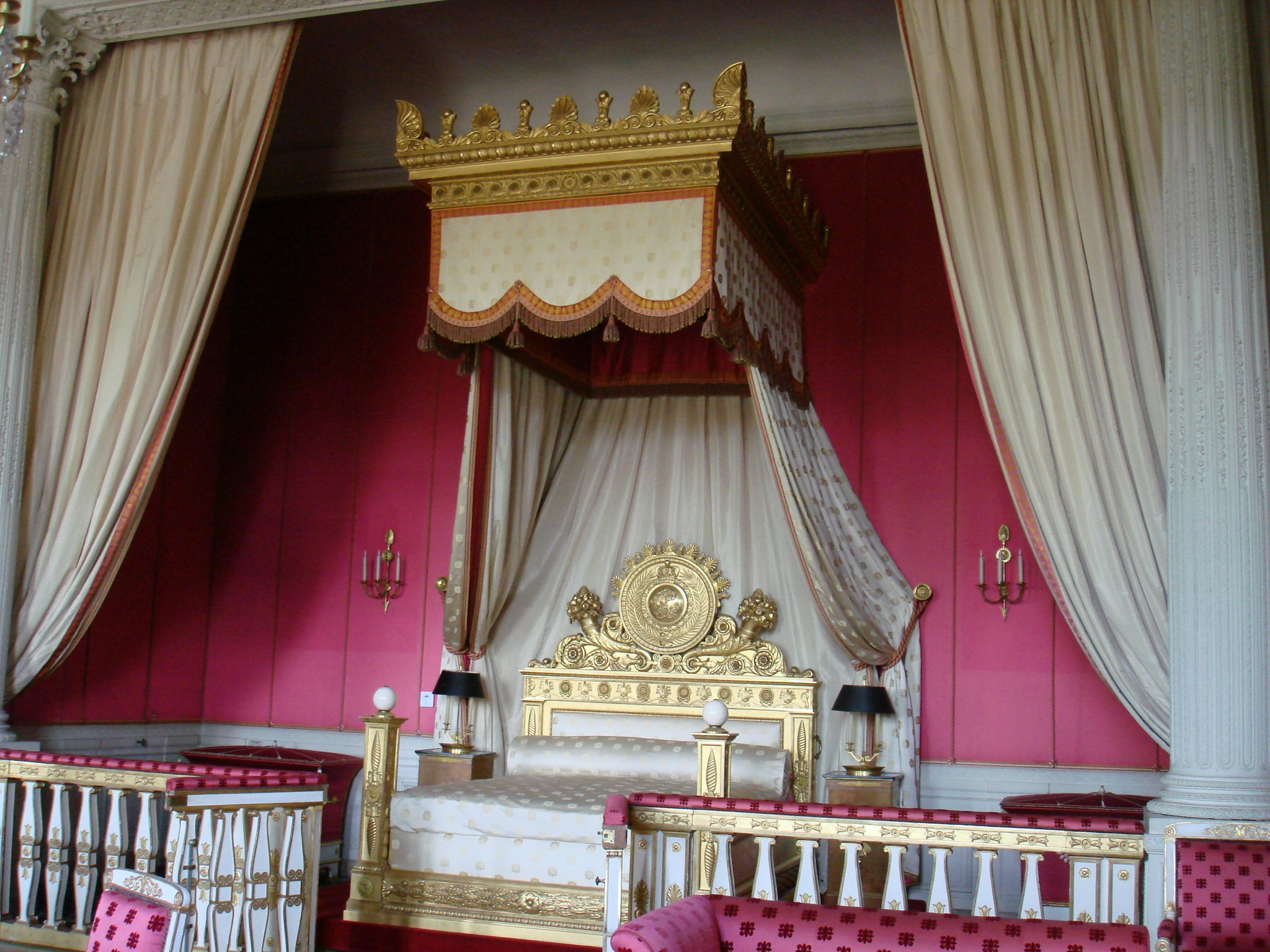 A bed with baldachin in the Le Grand Trianon palace in France